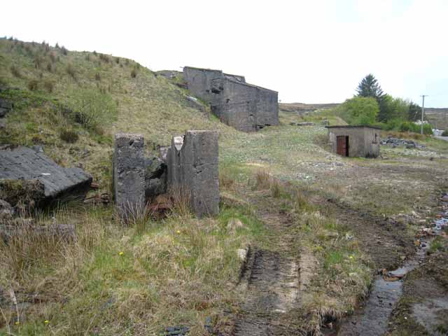 Old mine at Gubbarudda. Probably part of an old coal mines, of which there were at one time many in the district.